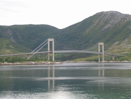 Kjellingstraumen bru in Gildeskål, Nordland, Norway. Picture taken by user:ZorroIII. As the full size version is rather unsharp, only a small version is uploaded.